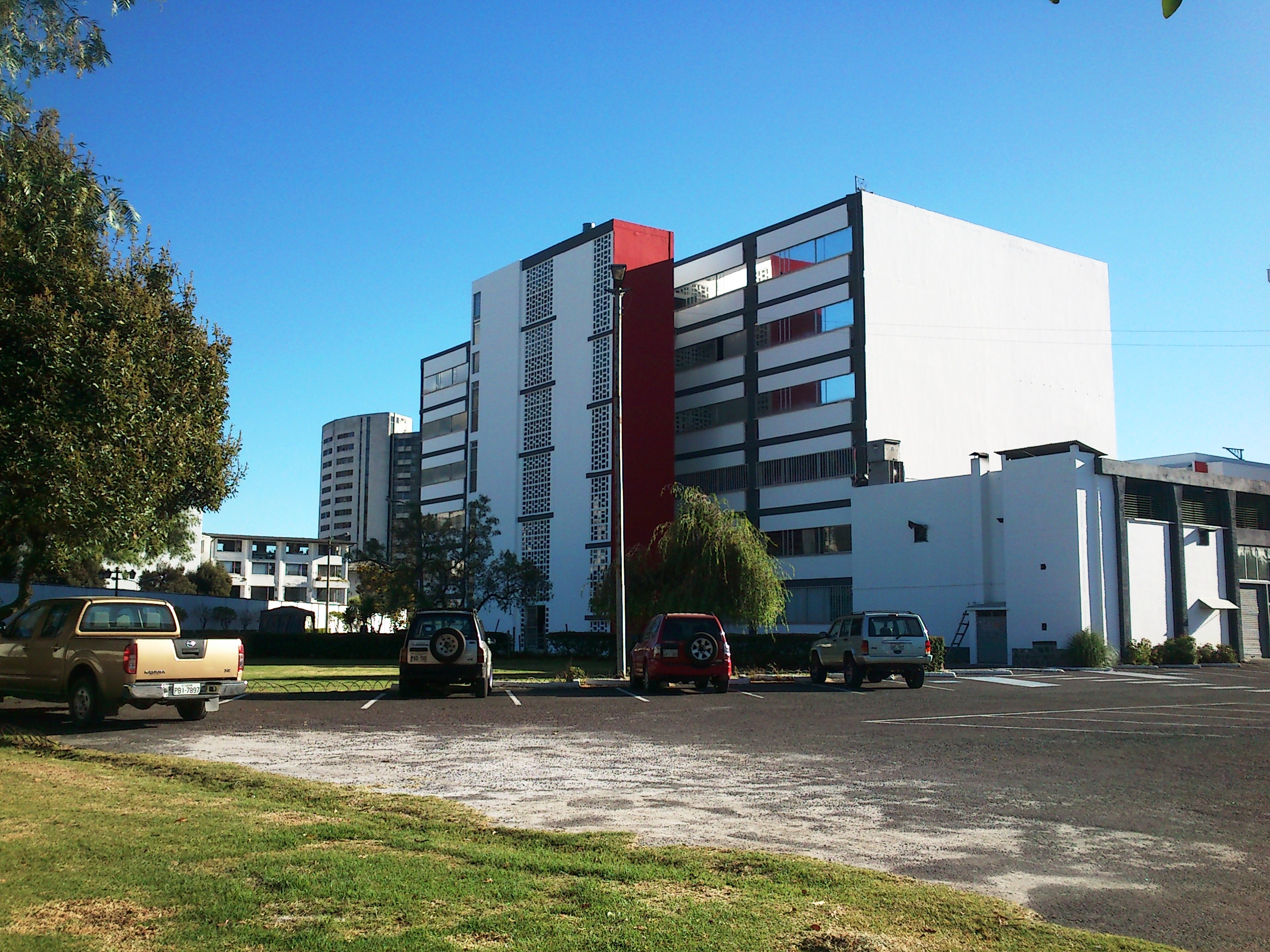 Basic sciences formation department at National Polytechnic School (EPN)